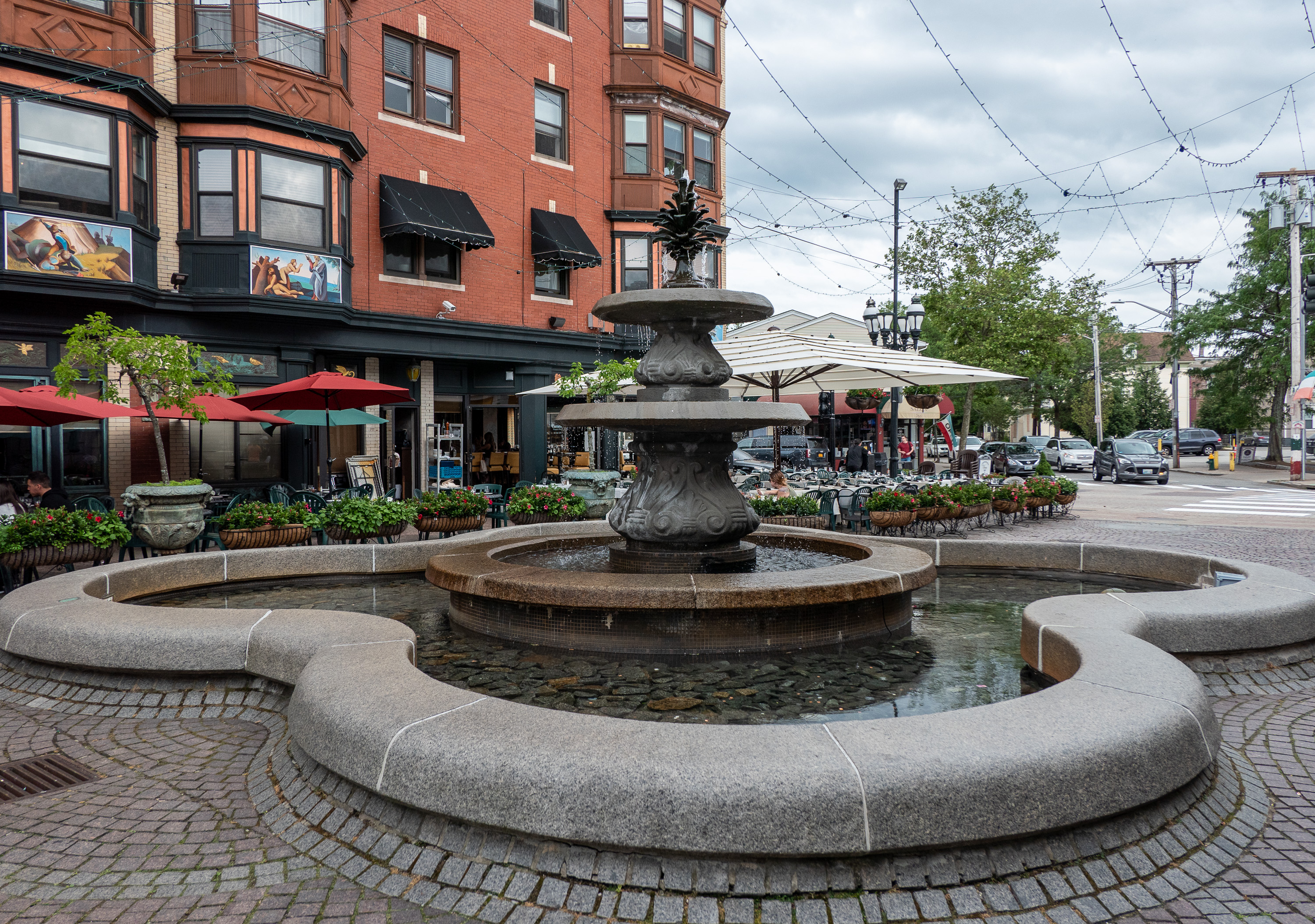 DePasquale Fountain, a Federal Hill landmark. Providence, RI